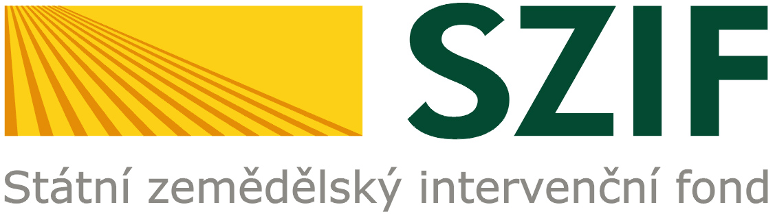 Logo of Státní zemědělský intervenční fond